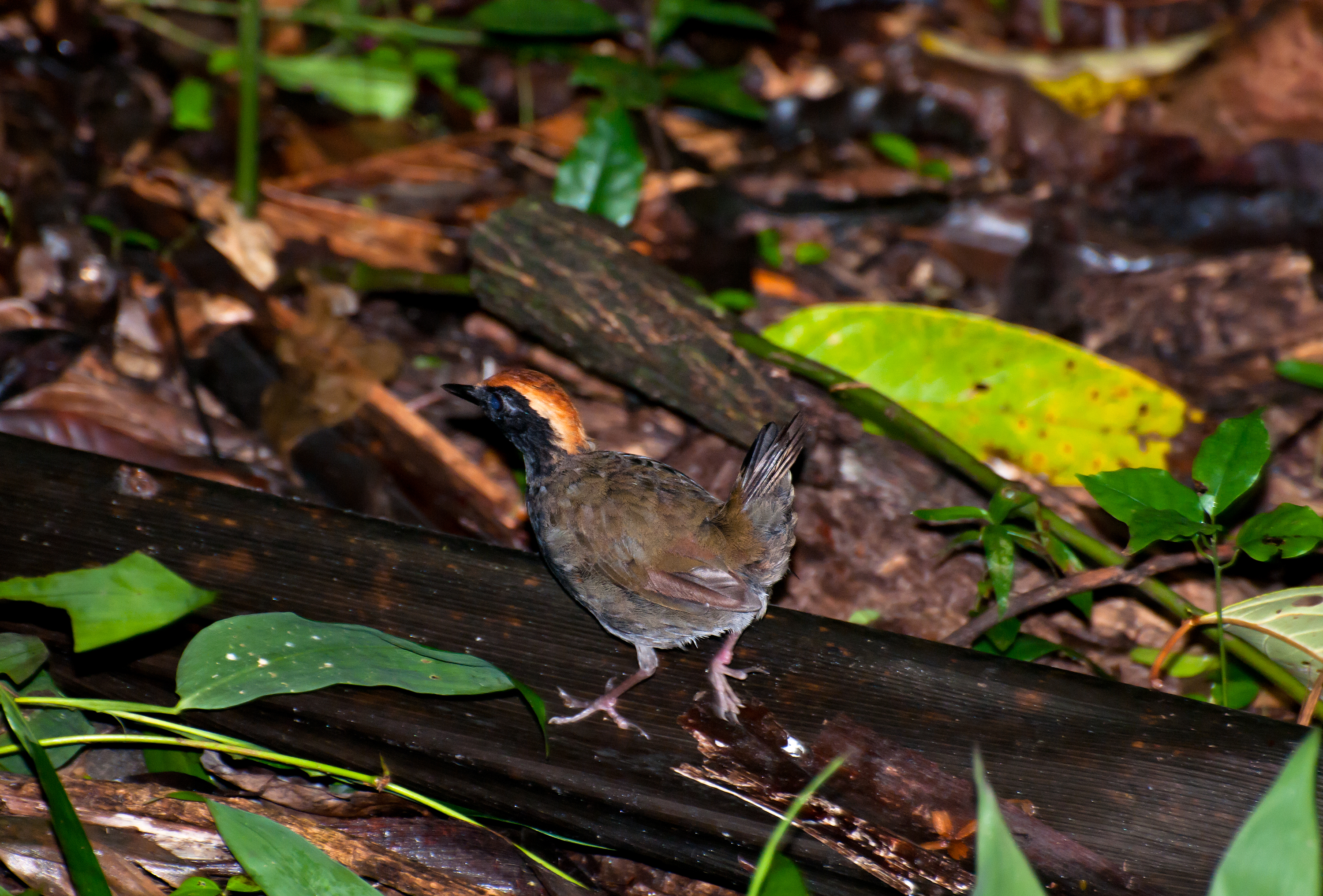 A Rufous-capped Antthrush in Vale do Ribeira, Registro, São Paulo, Brazil.